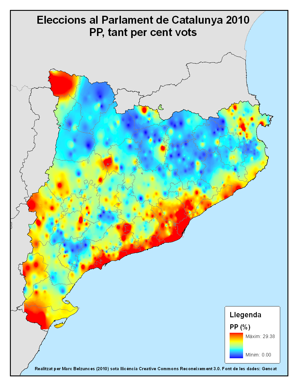 Distribution of the PPC vote in elections to the Parliament of Catalonia 2010.